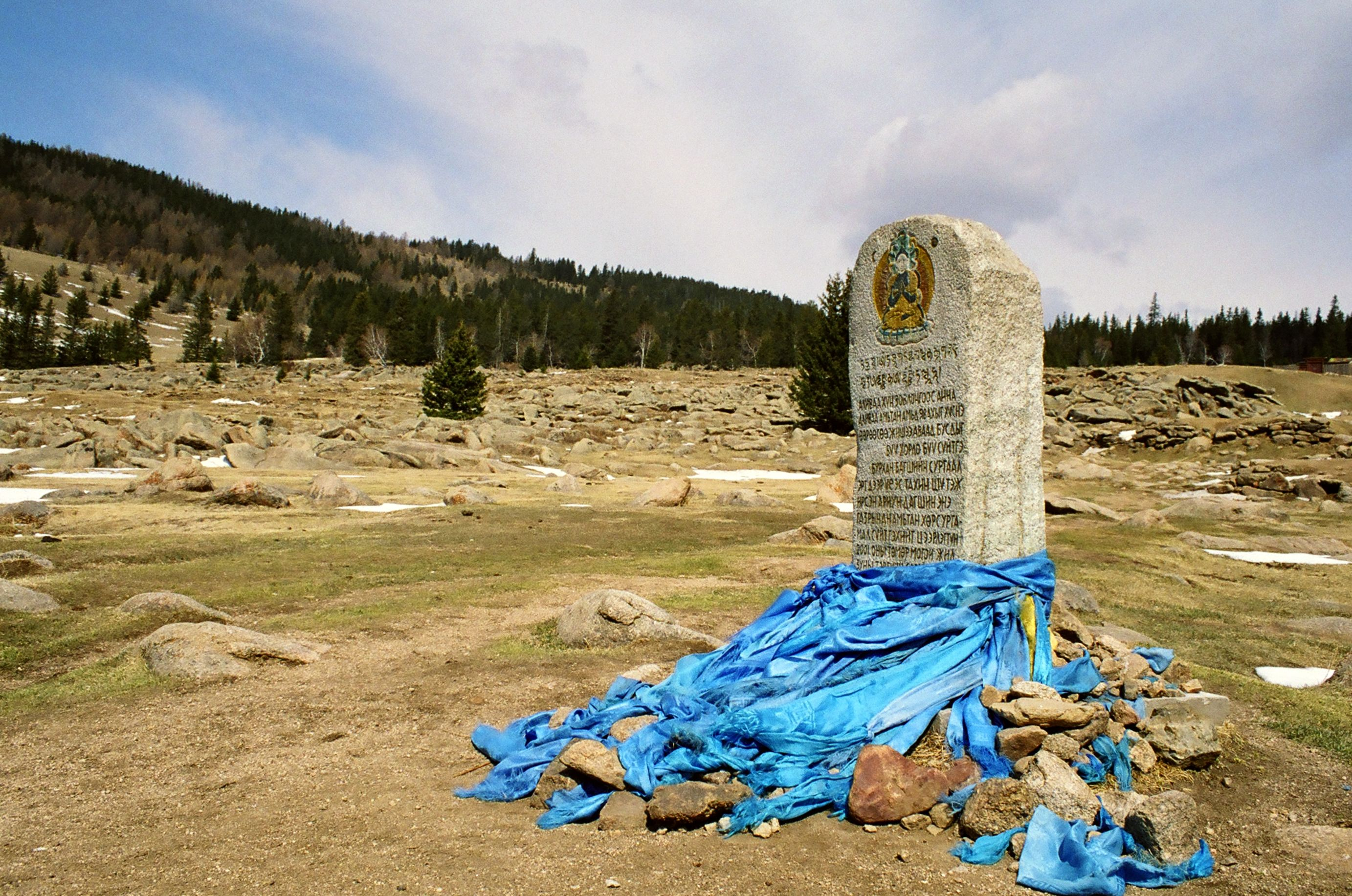 Manzushir Monastery in Mongolia